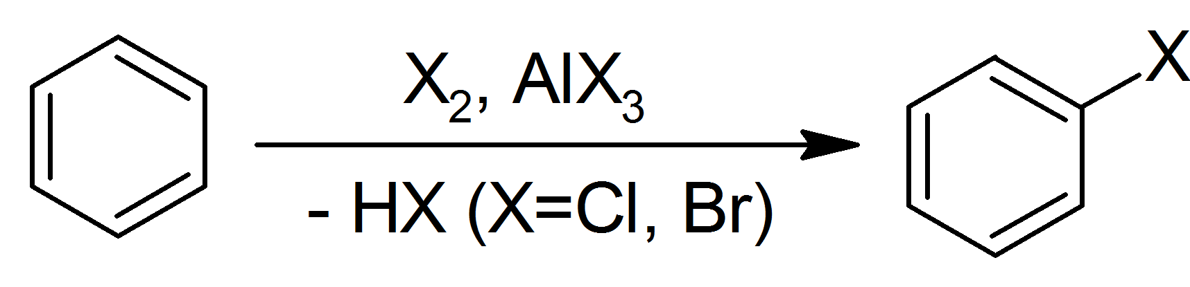 Benzene Halogenation